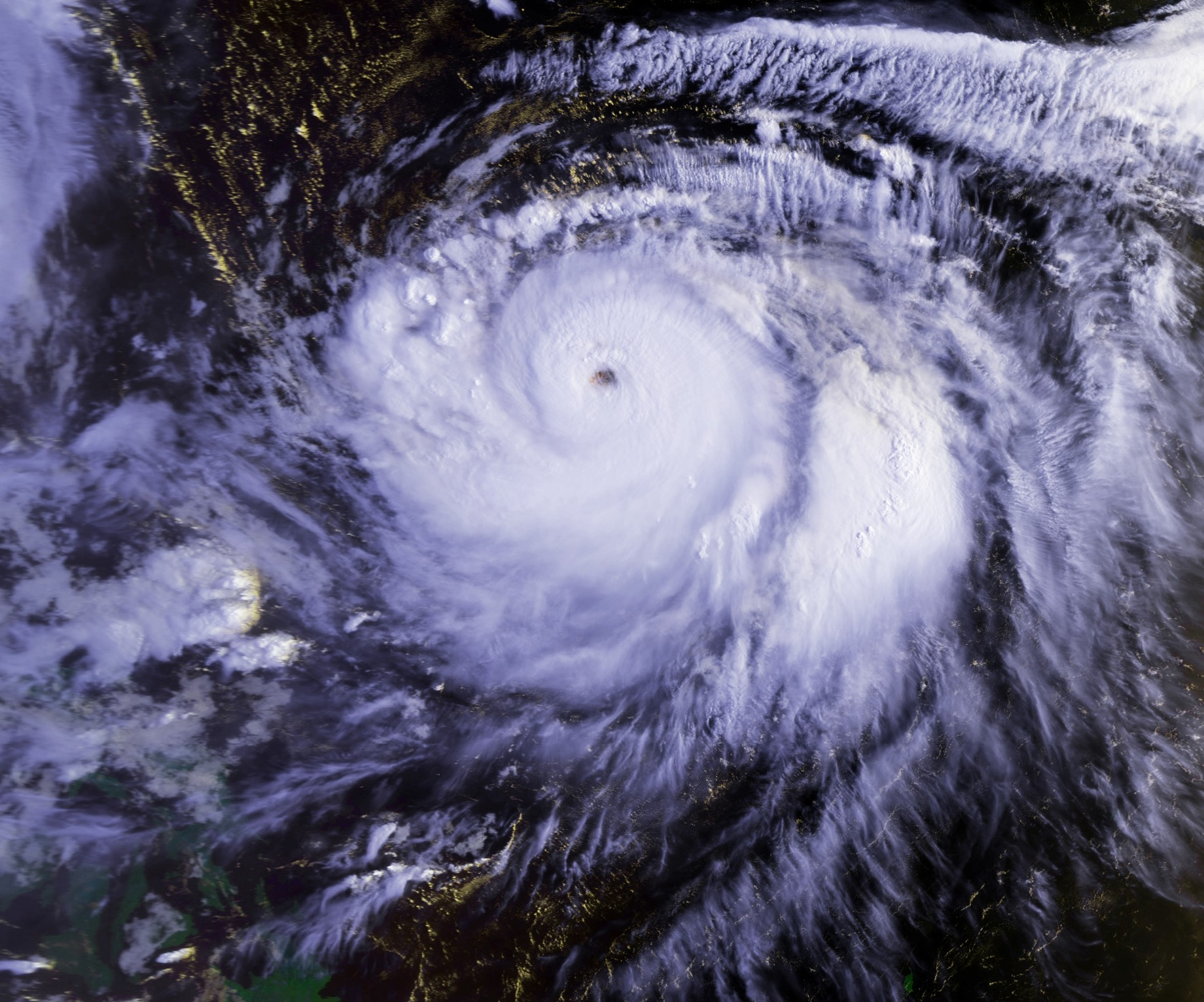 Typhoon Mireille at peak intensity on September 22 at 2236 UTC. This image was produced from data from NOAA-12, provided by NOAA. The storm's maximum sustained winds were increasing from 130 knots.